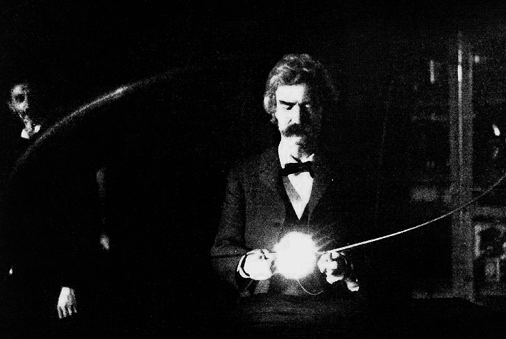 Mark Twain (penname of Samuel Langhorne Clemens) in the lab of Nikola Tesla, spring of 1894. Clemens is holding Tesla's experimental vacuum lamp, which is powered by a loop of wire which is receiving electromagnetic energy from a Tesla coil (not visible). Tesla's face is visible in the background.